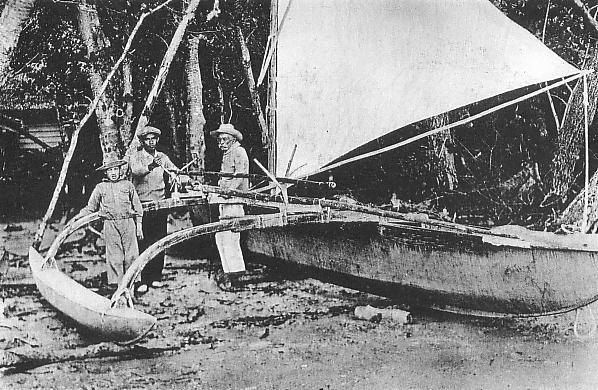 Oubeikei-Tomin(Inhabitants of American-European Origins in Ogasawara Islands) and outrigger canoe circa 1930